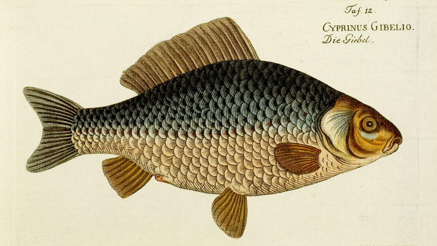 Etching aof Carassius gibelio in M.E. Bloch (1782): Naturgeschichte der ausländischen Fische